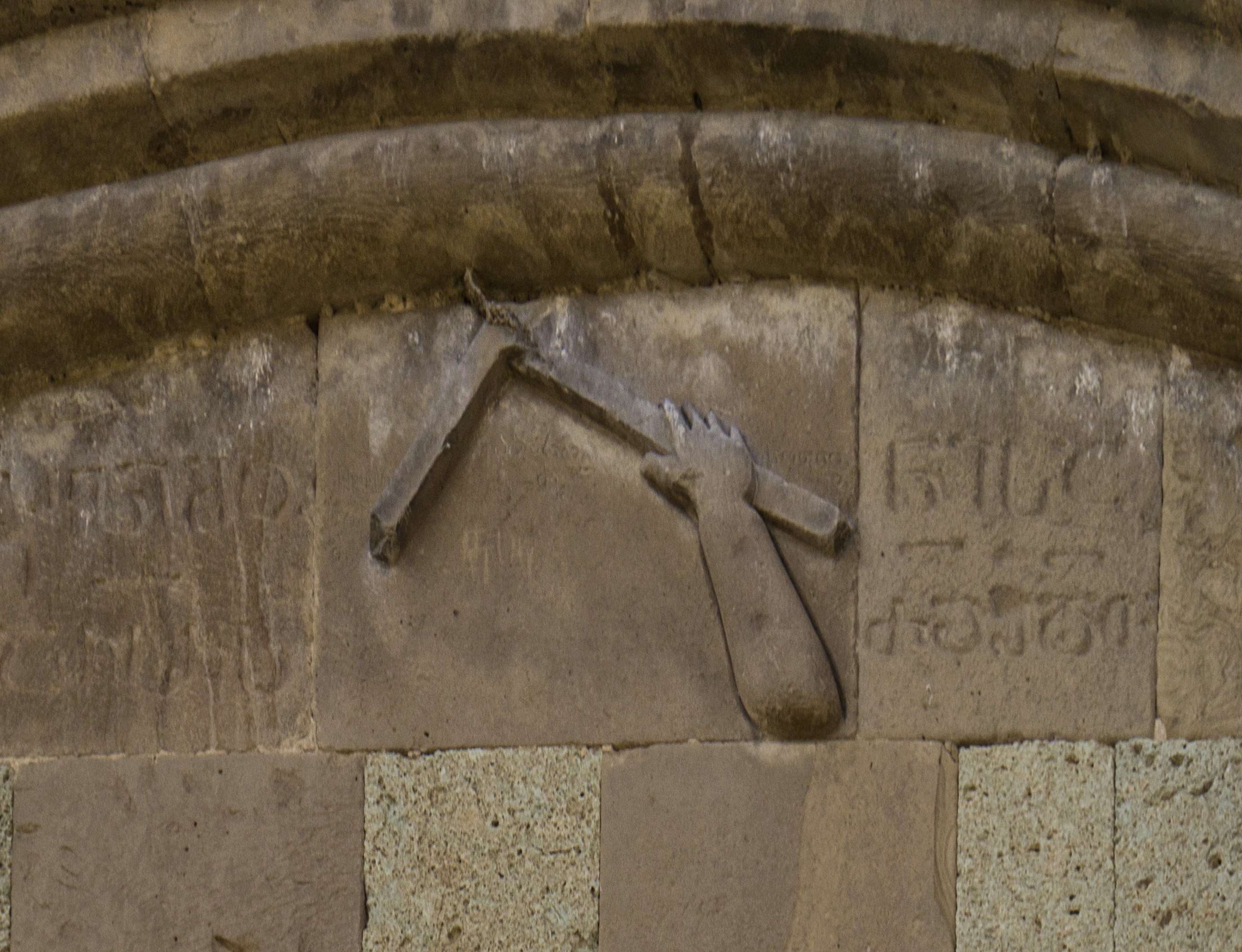 The architect of this beautiful church had his hand cut off after completion, to ensure he never created another masterpiece like it. Svetitskhoveli Cathedral The name means literally, "the Living Pillar Cathedral": in the 1st century AD a Georgian Jew from Mtskheta named Elias was in Jerusalem when Jesus was crucified. Elias bought Jesus’ robe from a Roman soldier at Golgotha and brought it back to Georgia. Returning to his native city, he was met by his sister Sidonia who upon touching the robe immediately died from the emotions engendered by the sacred object. The robe could not be removed from her grasp, so she was buried with it. The place where Sidonia is buried with Christ's robe is preserved in the Cathedral. Later, from her grave grew an enormous cedar tree. Ordering the cedar chopped down to build the church, St. Nino had seven columns made from it for the church’s foundation. The seventh column, however, had magical properties and rose by itself into the air. It returned to earth after St. Nino prayed the whole night. It was further said that from the magical seventh column a sacred liquid flowed that cured people of all diseases. In Georgian sveti means "pillar" and tskhoveli means "life-giving" or "living", hence the name of the cathedral. The current building is from 1010 AD and is a very sacred place to the Georgians. It has a very special feel about it, and even for an agnostic like me, the place blew me away. Most other churches we have visited on this trip I have been ready to leave and move on; but here I could have stayed for hours. It surprised me greatly that I actually found it quite emotional.